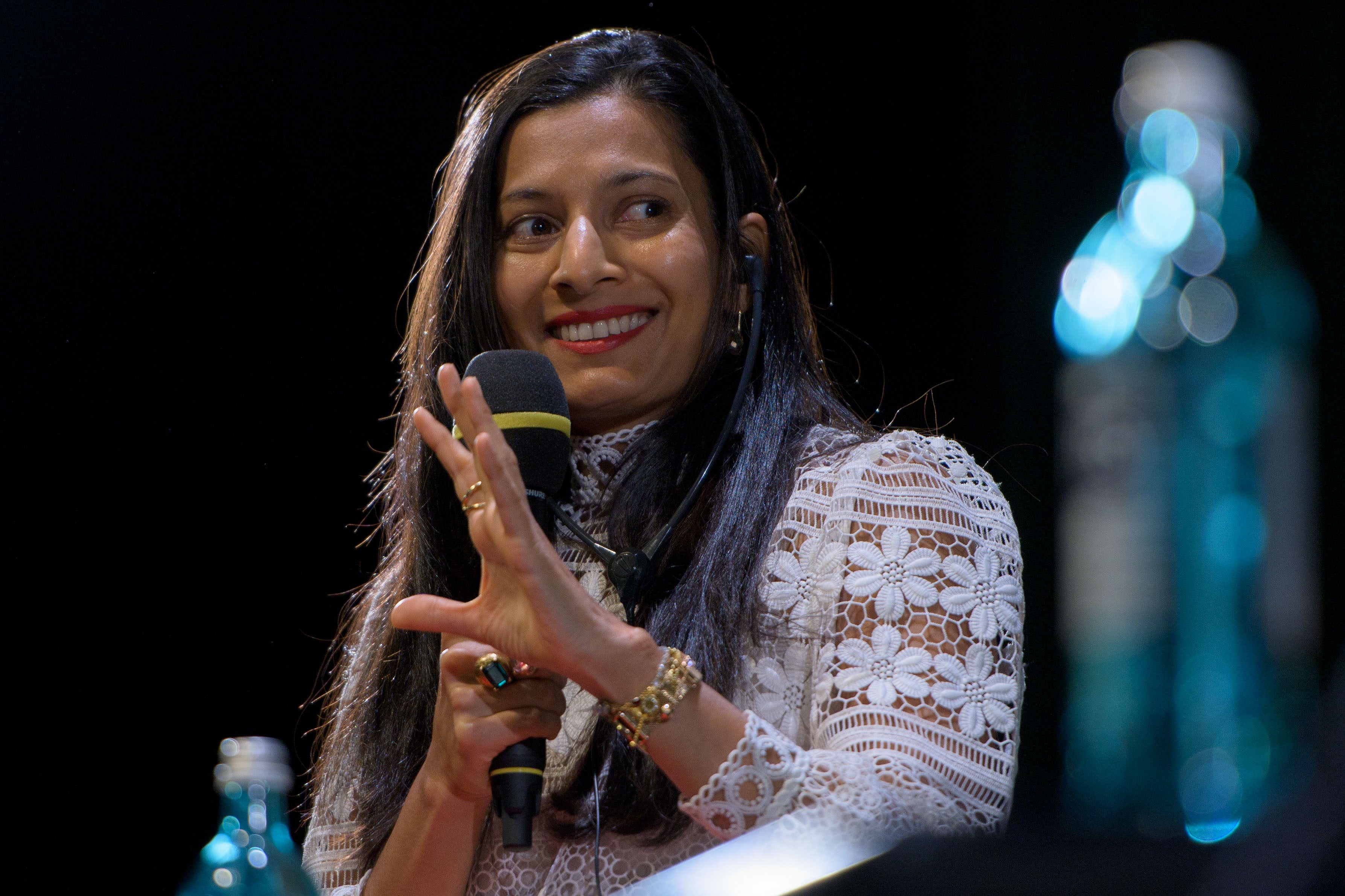 Priya Basil (Autorin) Foto: Stephan Röhl